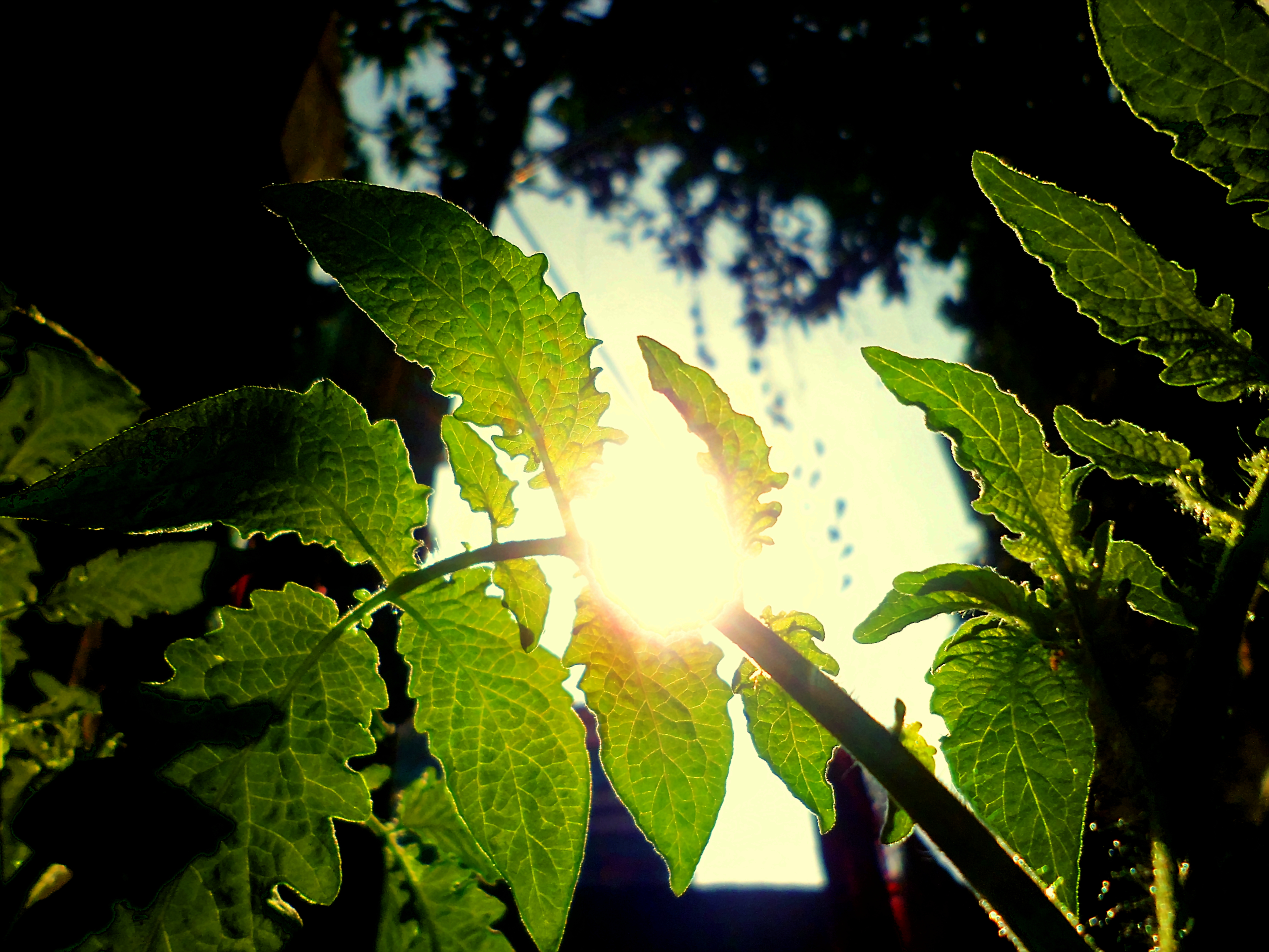 leaf shadow